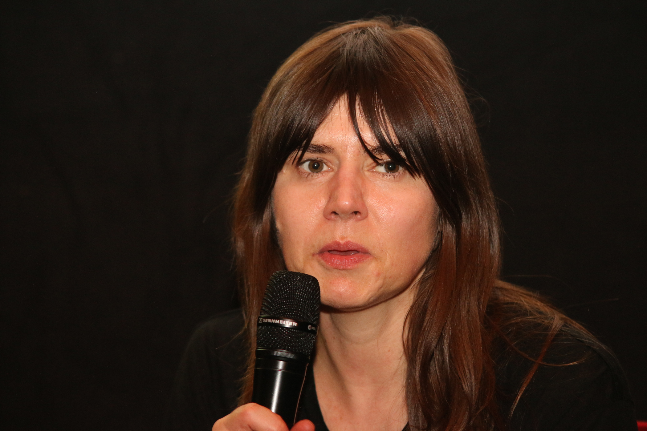 GoEast Film Festival 2014, Wiesbaden: Małgorzata Szumowska, Director from Poland